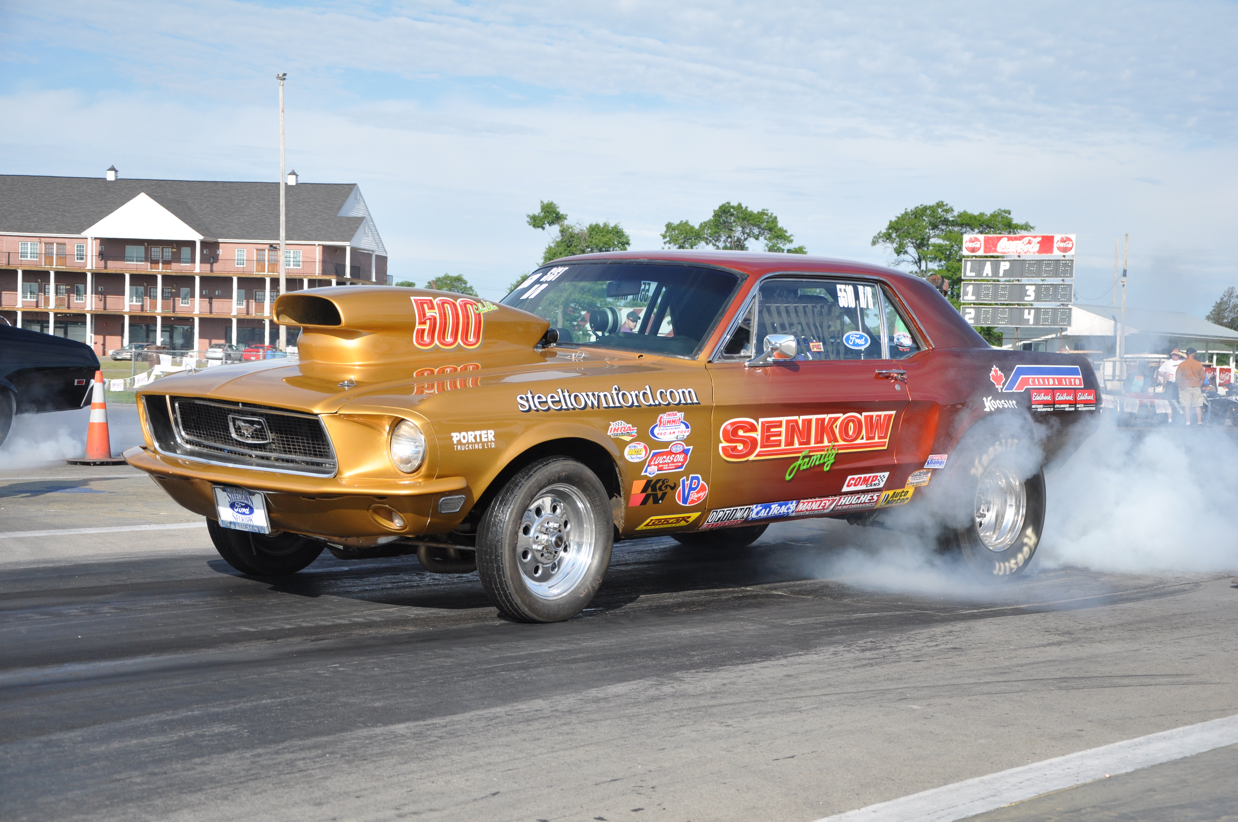 Senkow Family Racing 1968 Ford Mustang. Runs NHRA Super Street and IHRA Hot Rod. Driver:Fred Senkow, Crew Chief: Don Senkow, Crew: Gareth Senkow. Racing here at BIR in 2012